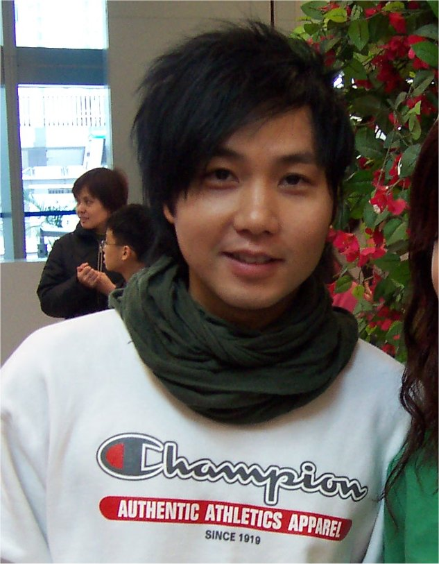 Barry Ip